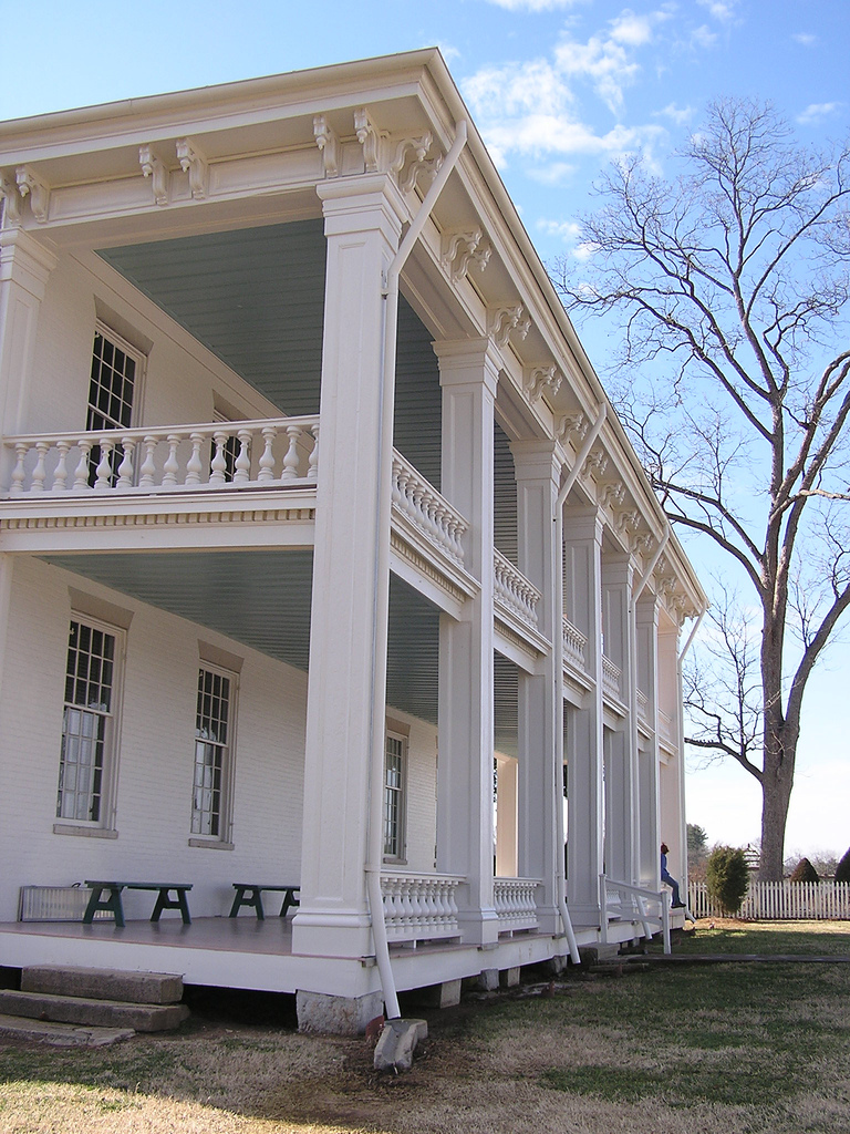 Carnton, Franklin, Tennessee. Author: Kraig McNutt May be used freely without attribution to me.